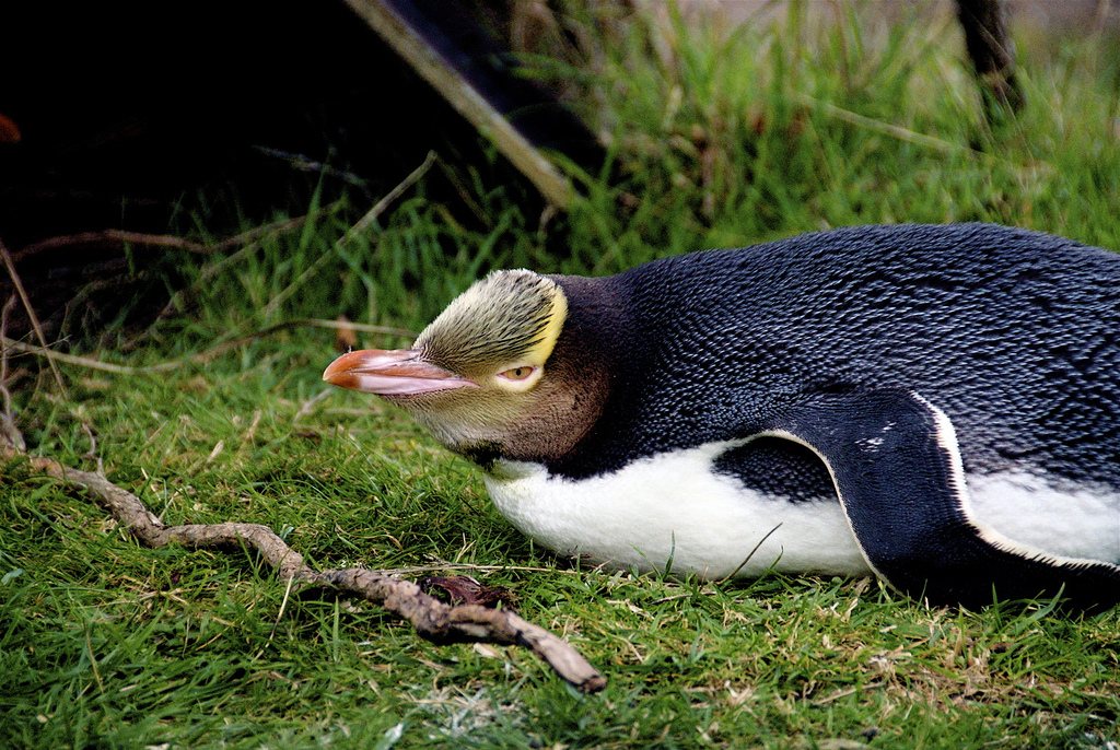 Yellow-eyed Penguins are the world's rarest penguin species. Here's one that we just accidentally woke up, opening its eyes to take a look at us. Seen in the wild at Otago Bay. September 2007.